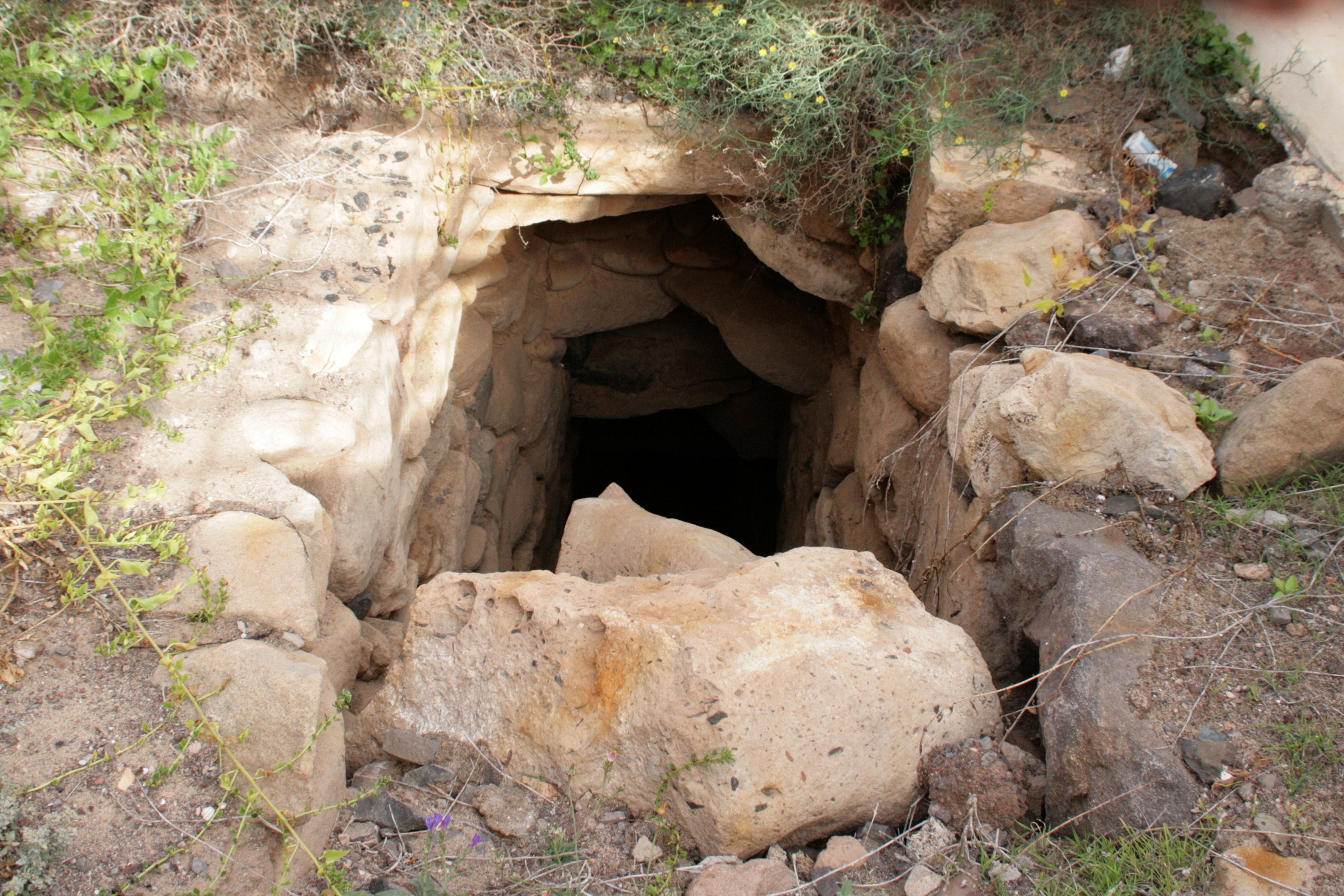 Pozos de San Marcial del Rubicon, close to Playa Pozo, Playas de Papagayo in Playa Blanca, Yaiza, Lanzarote, Canary Islands